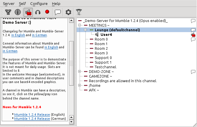 Screenshot of Mumble server for Wikipedia/Wikimedia users. Mumble is GPL software and GUI elements are available under the GPL. Screenshot taken by User:Dcoetzee who releases all rights to the composition/arrangement under the Creative Commons Zero Waiver. Chat text written by participants is de minimis.